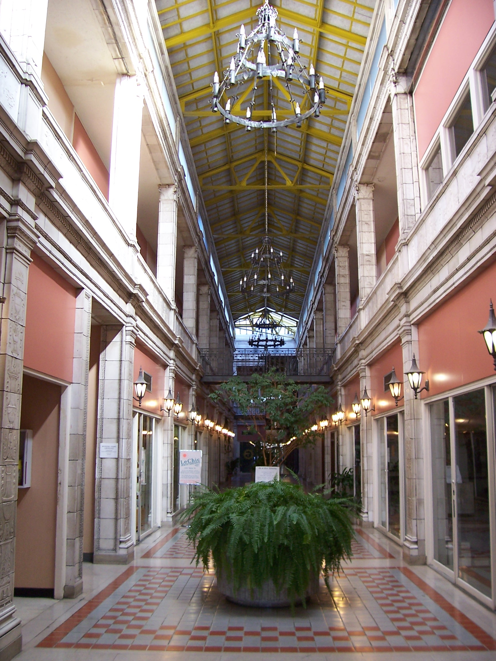 A view of the interior of the Arcade Building in Columbia, South Carolina. The building is listed on the National Register of Historic Places.